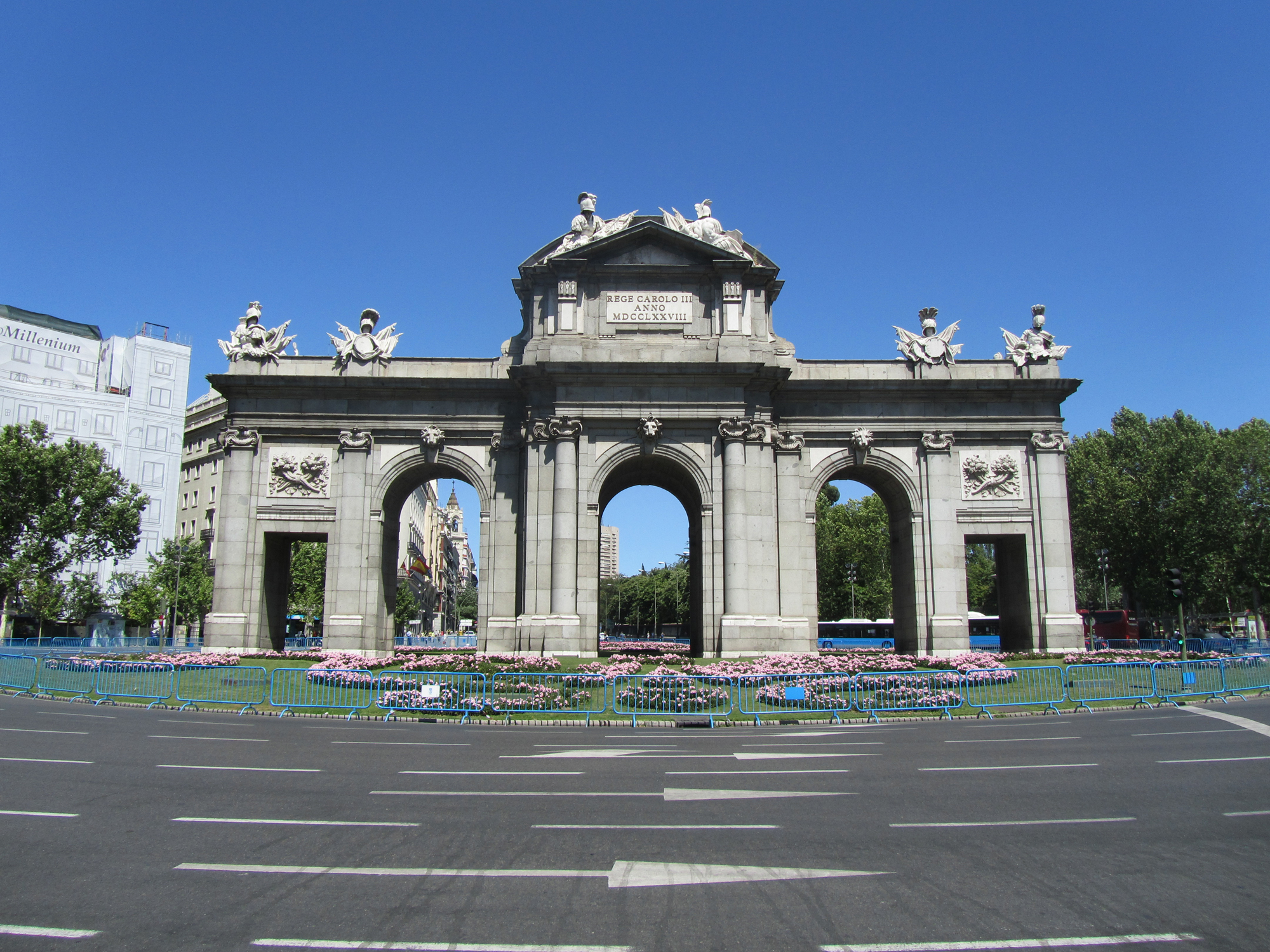 Western side of Puerta de Alcalá, Madrid